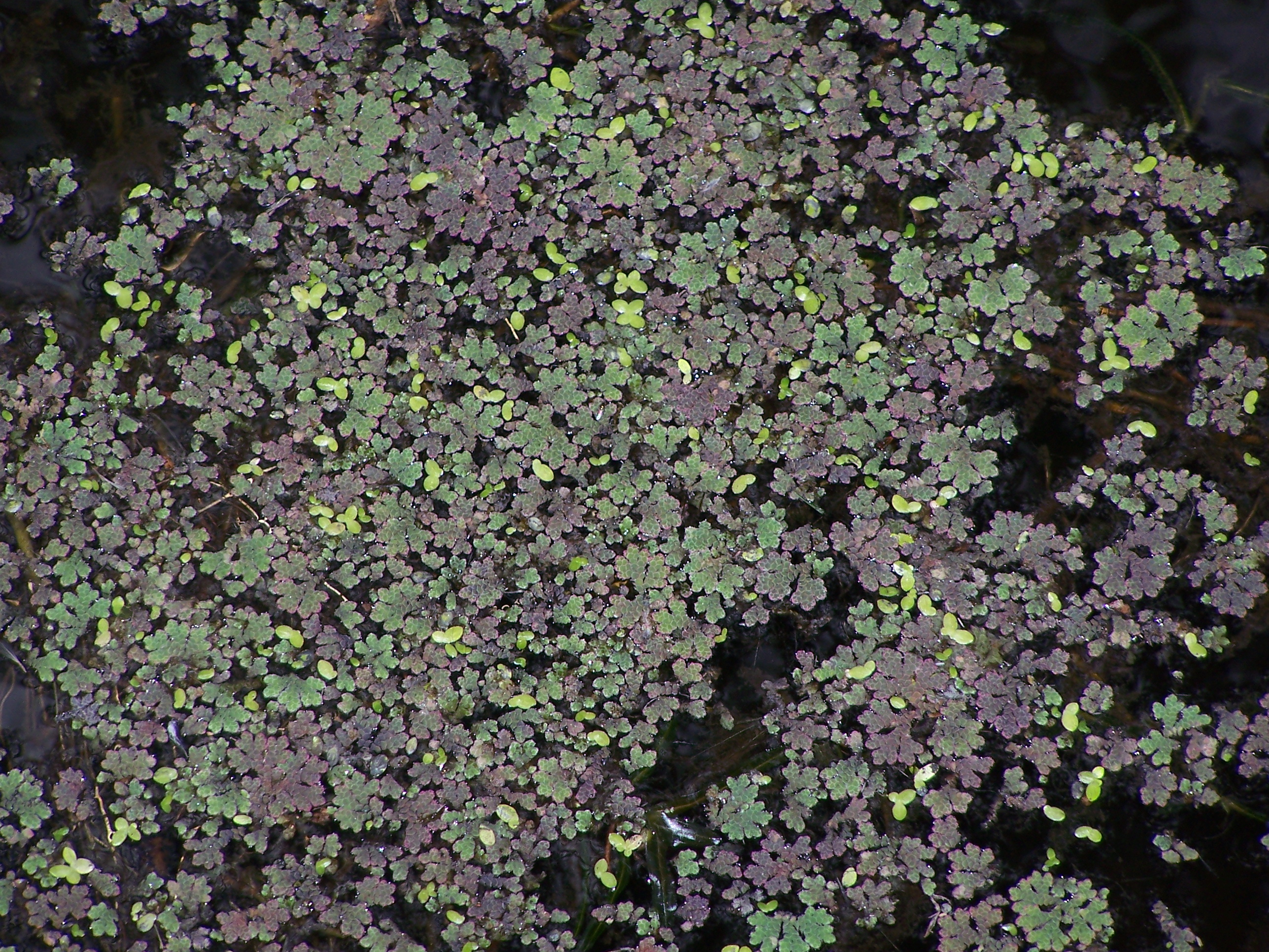 Azolla on the Canning River, Western Australia Azolla interspersed with Lemna